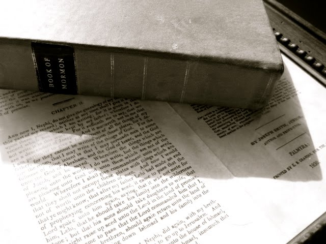 Replica 1830 edition of the book of Mormon placed on a Replica Signature of the first 16 pages